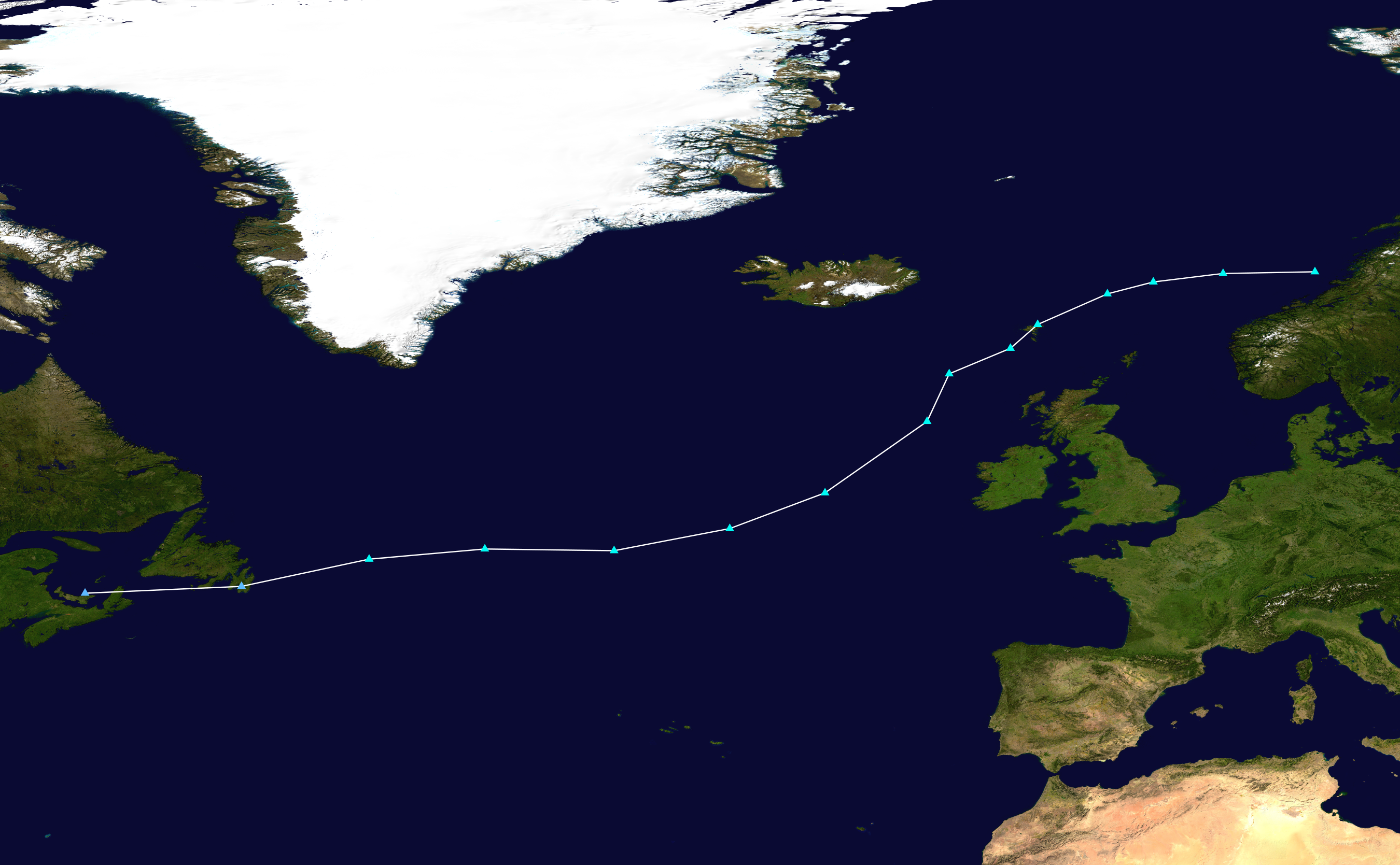 Track map of Storm Eva of the European windstorms of 2015. The points show the location of the storm at 6-hour intervals. The colour represents the storm's maximum sustained wind speeds as classified in the Beaufort wind scale (see below). Beaufort scale 1-7≤38 mph≤62 km/h 8-11 (gale-force)39–73 mph63–118 km/h 12 (hurricane force)≥74 mph≥119 km/h Unknown